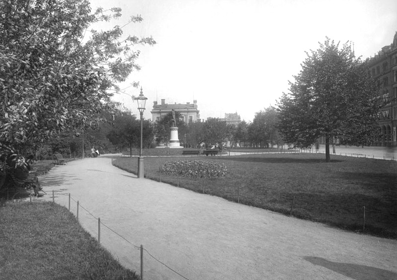 Järnvägsparken next to Stockholm central station 1899